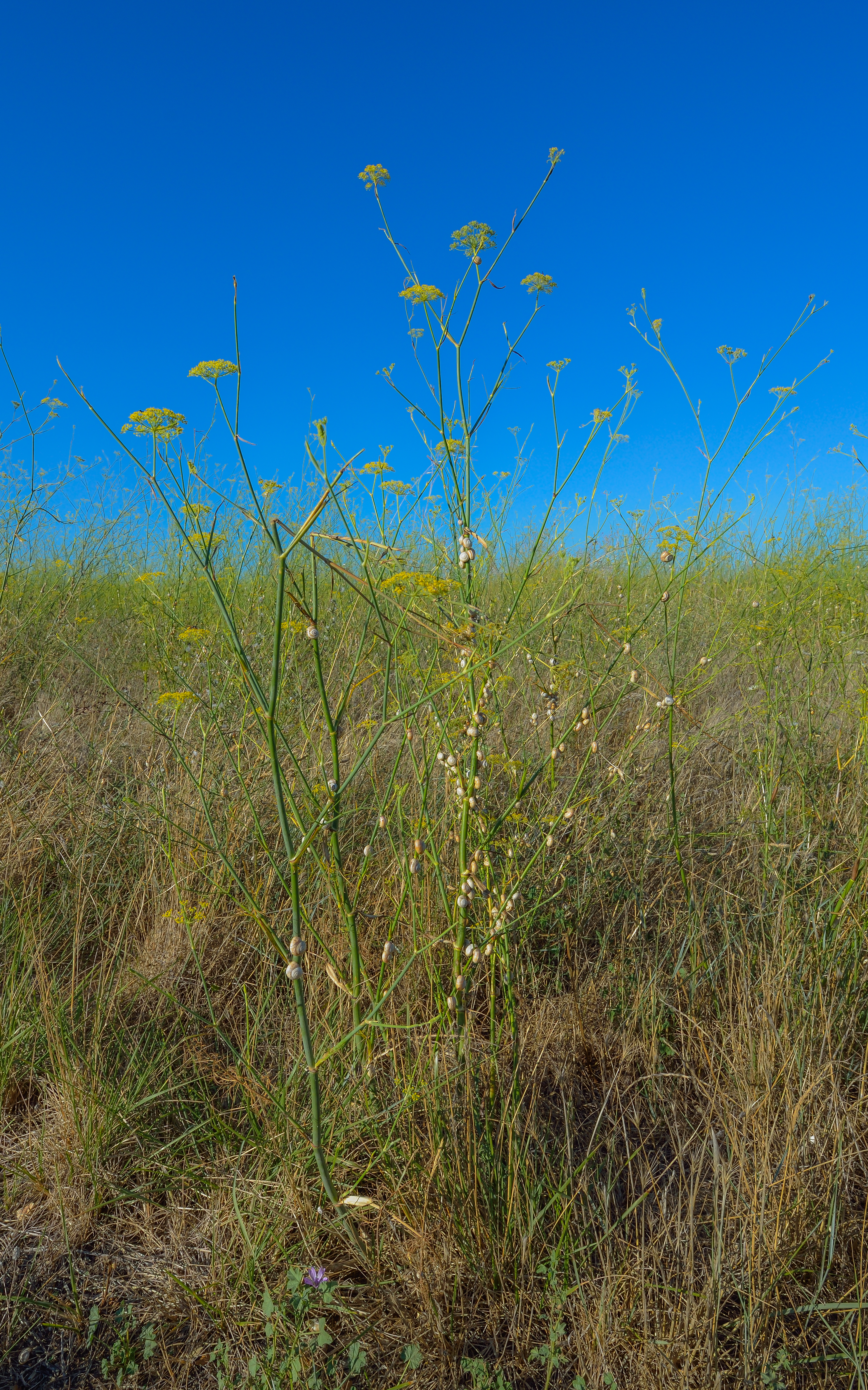 Colonies of sand hill snails (Theba pisana), in aestivation on fennel branches (Foeniculum vulgare) to escape of the soil warmth. Montbazin, Hérault, France.